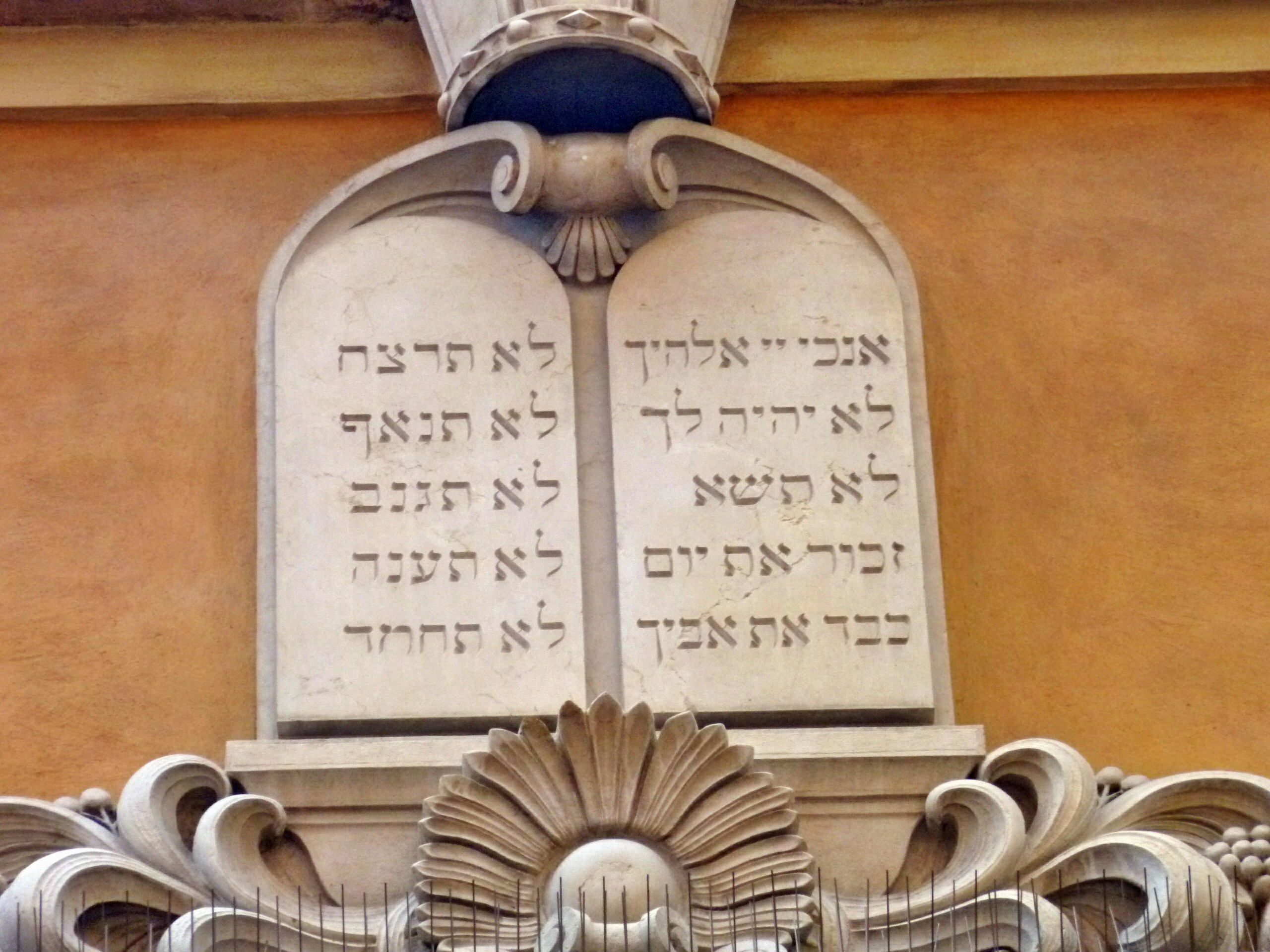 Synagogue in Verona, Italy